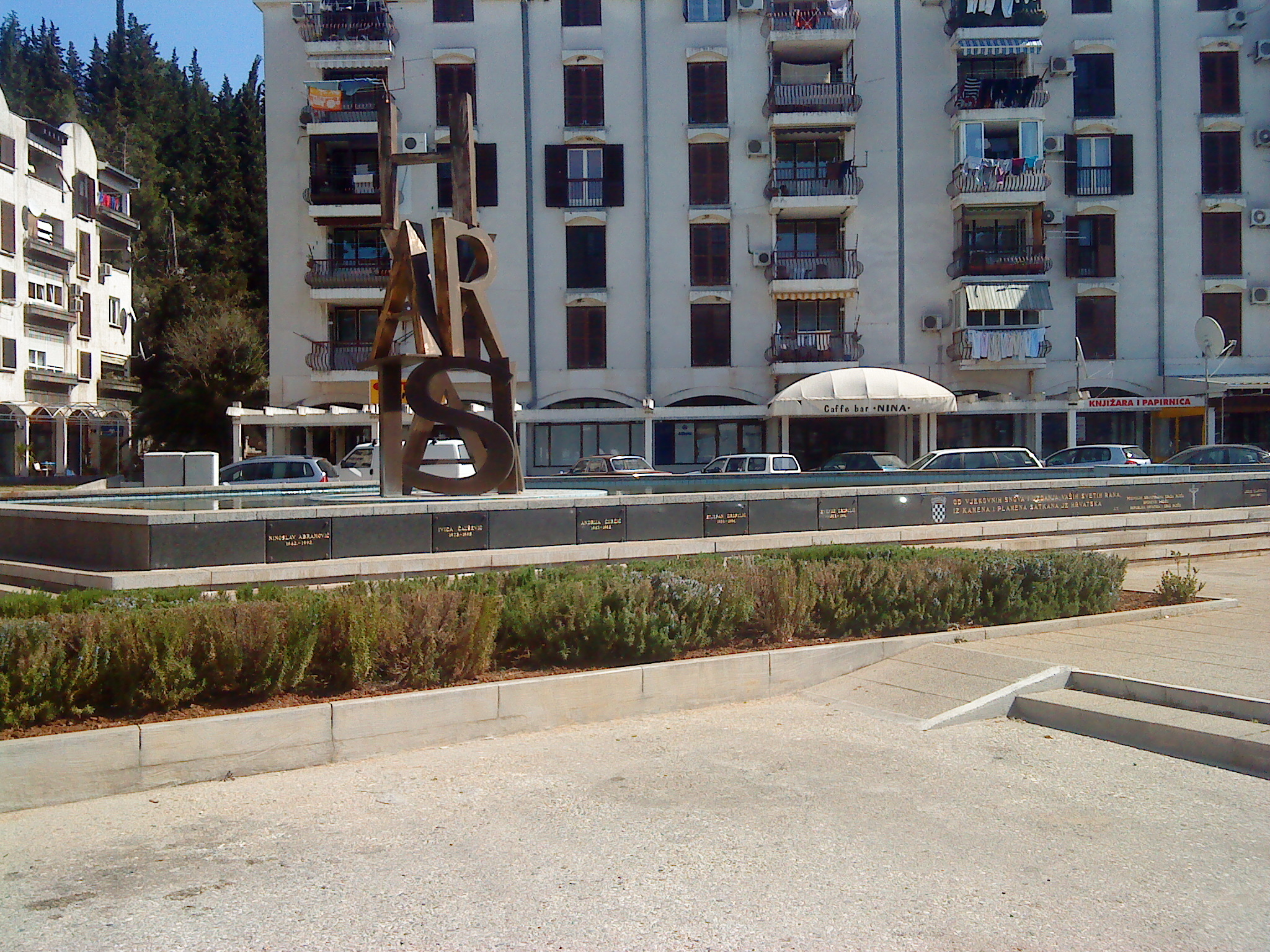 Monument "Hrvatska" in Ploče